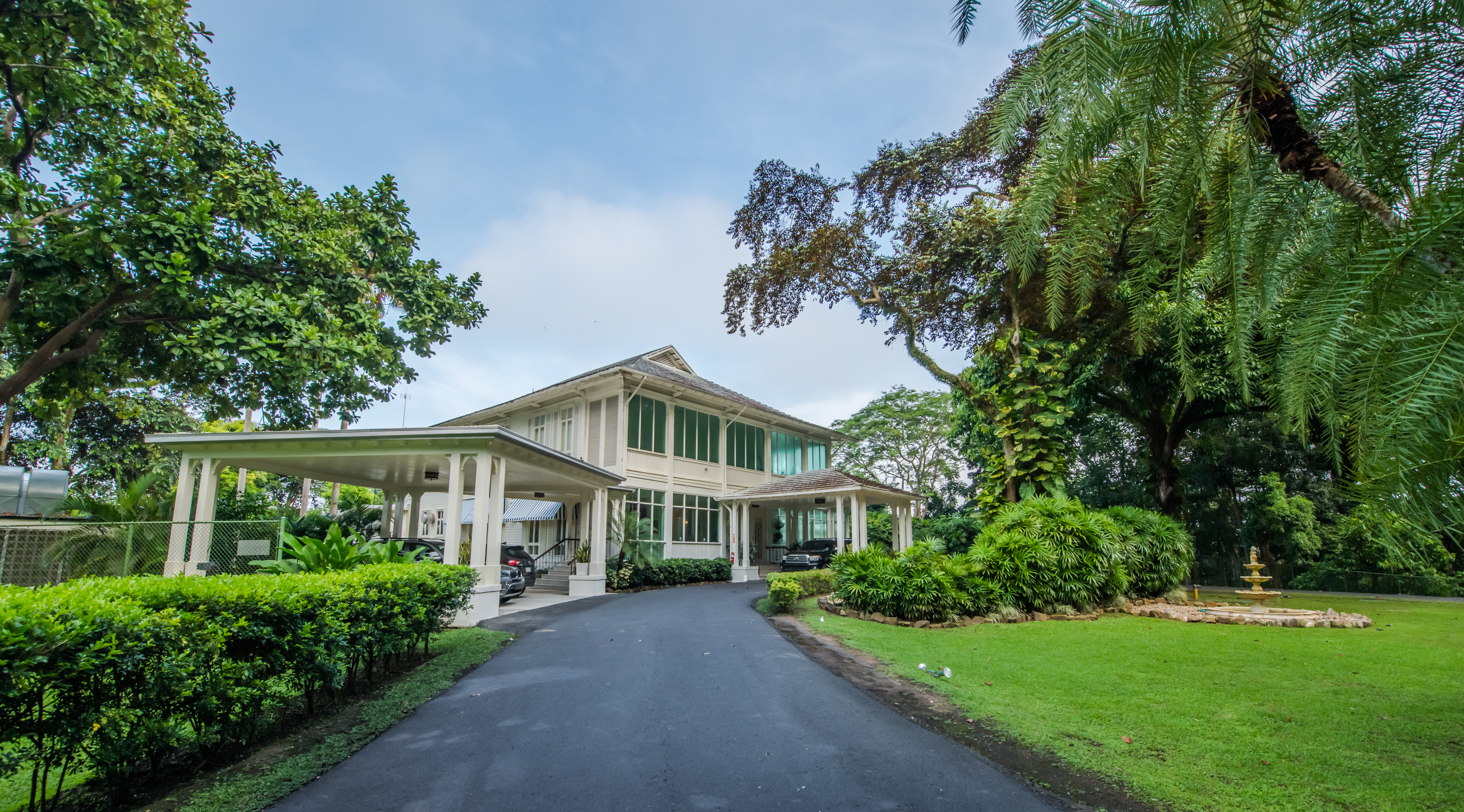 Panama Canal Administrator's house, Panama city.